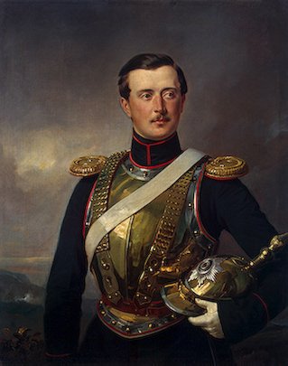 Portrait of Count Pyotr Andreyevich Shuvalov